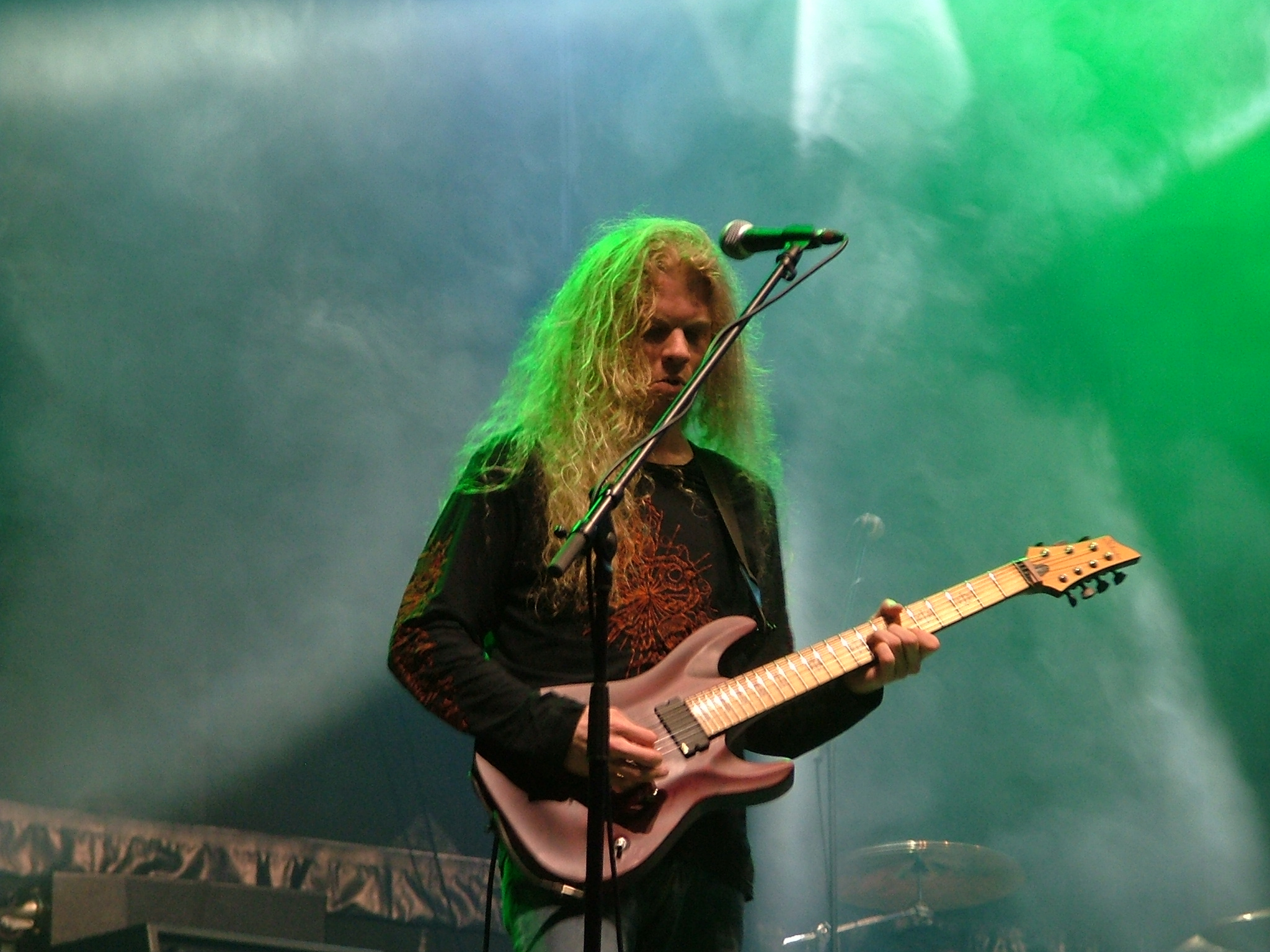 USAmerican progressive metal band Nevermore at the Summer Breeze in Dinkelsbühl